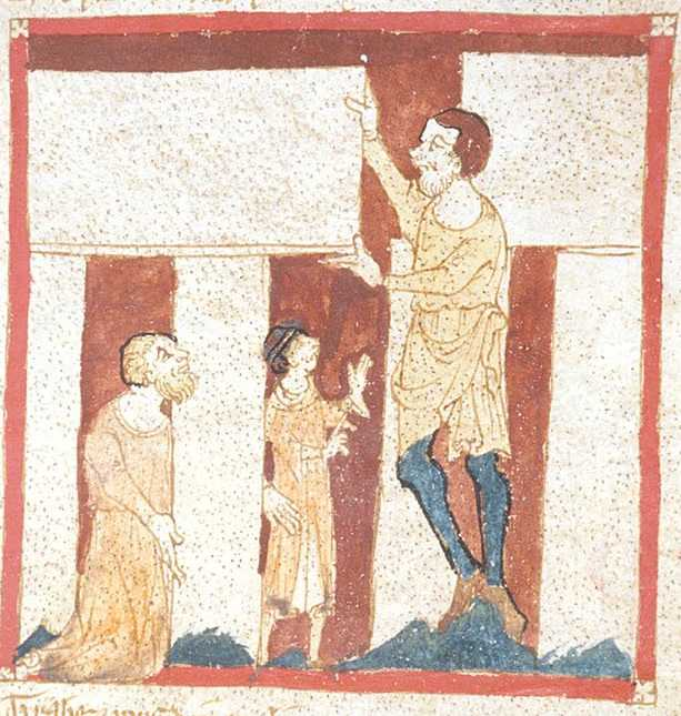 Fol. 30r. detail, Depicted person: Merlin. This illustration shows the construction of Stonehenge by a giant with the assistance of Merlin. It is the oldest known illustration of Stonehenge.